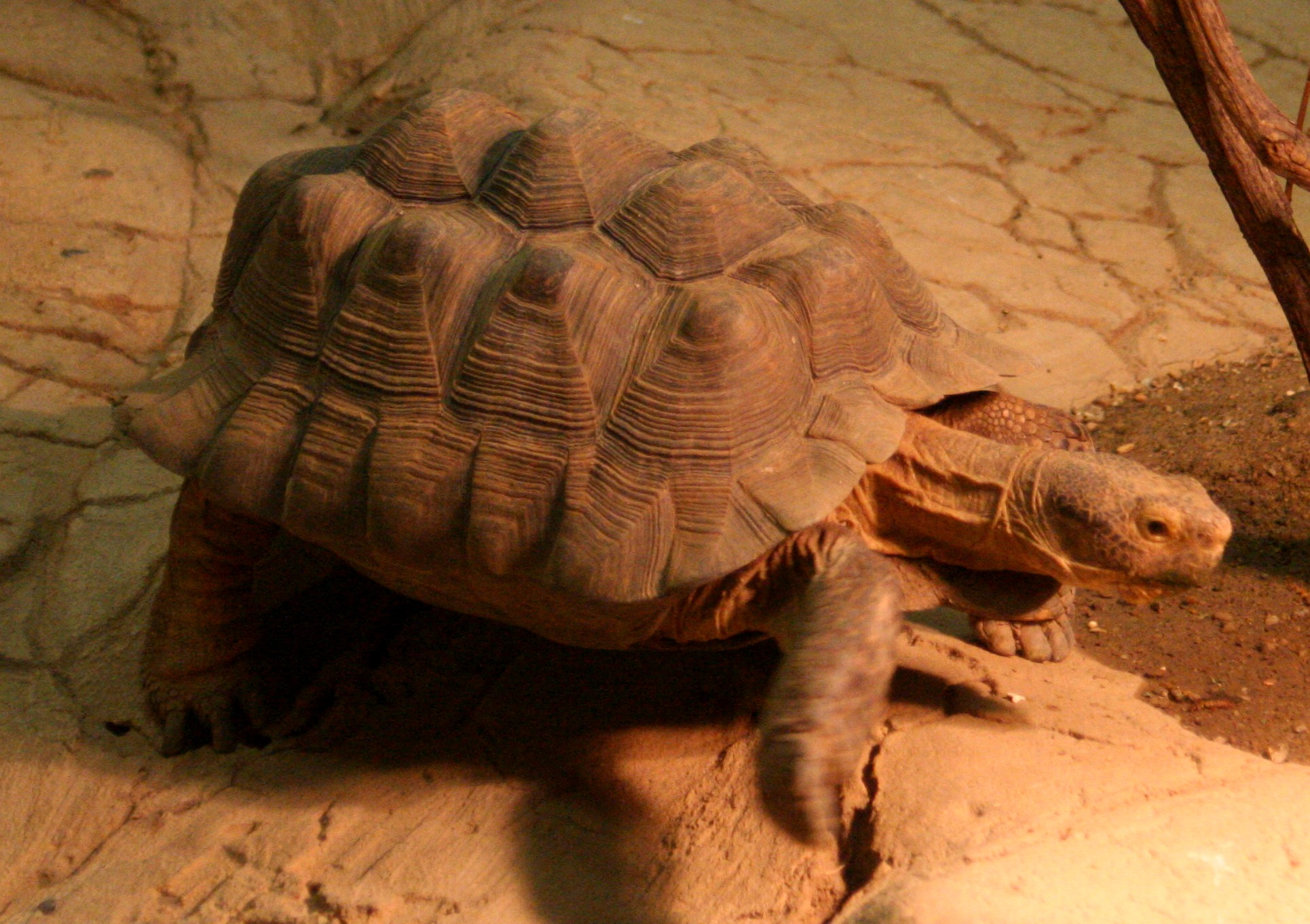 Desert tortoise (Gopherus agassizii) at the Buffalo Zoo